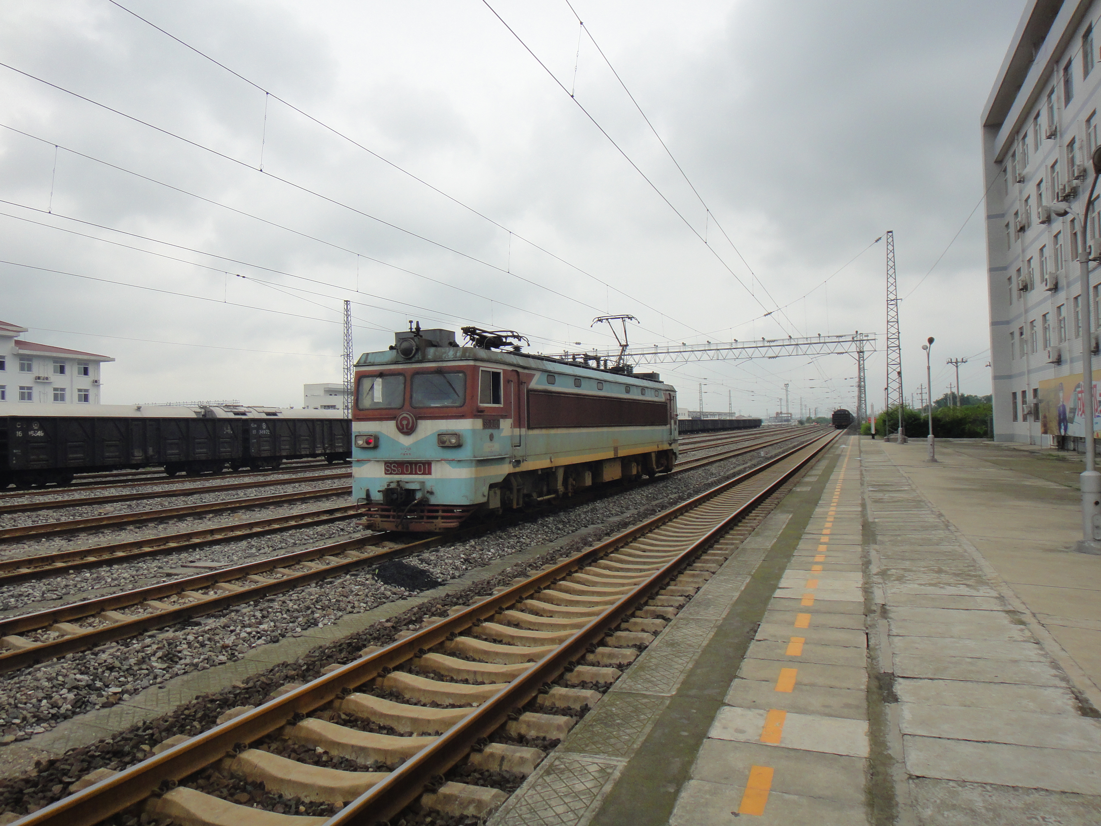 Largest freight marshalling yard in South West China, not to be confused with Chengdu North Metro Railway Station at Chengdu Railway Station.